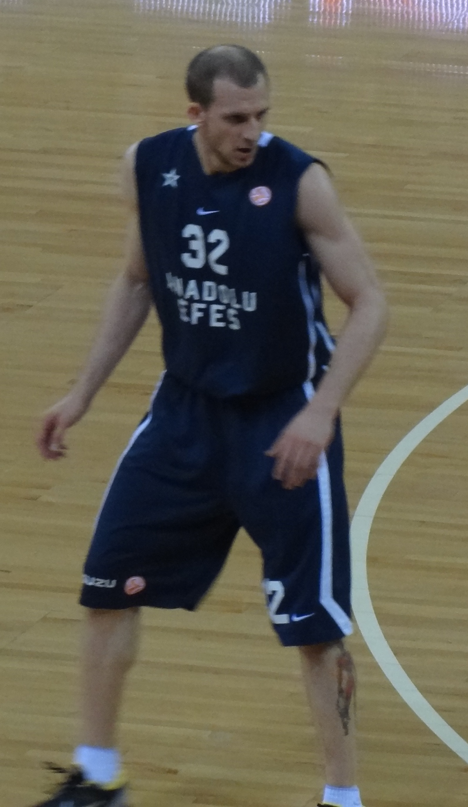 Sinan Güler playing vs GS